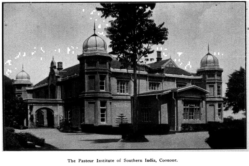 Pateur Institute, Coonoor, India